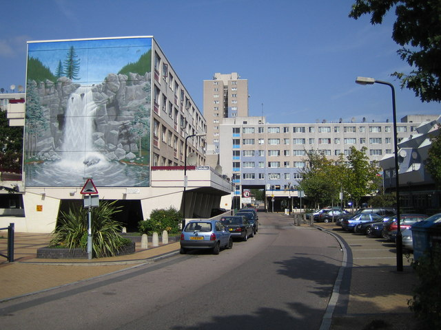 Tottenham: The Broadwater Farm Estate, N17. The estate was built between 1967 and 1973 in a style designed by Le Corbusier where no dwellings were at ground level because of the high water table of the Moselle River which is culverted under the estate. The warren of first floor concrete walkways offered opportunities for crime and anti-social behaviour and the consequent bad reputation of the estate long before the riot of 6 October 1985 which resulted in the murder of PC Keith Blakelock. Further information on the history of the estate can be found on Haringey Council's website here This is the Gloucester Road entrance to the estate. The mural on the end wall depicts a waterfall. I don't know if this is an image of an actual place or an idealized depiction of an idyllic rural scene. See 235156 for another photo of the estate in an adjacent grid square.